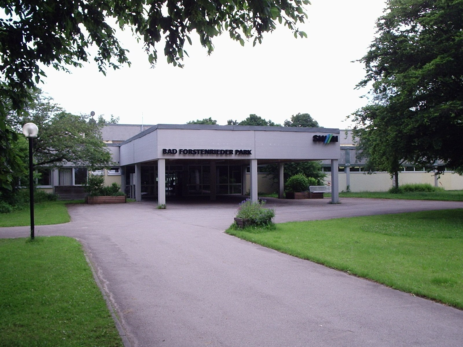 Bad Forstenrieder Park, public indoor swimming pool, Stäblistraße, Munich, Germany